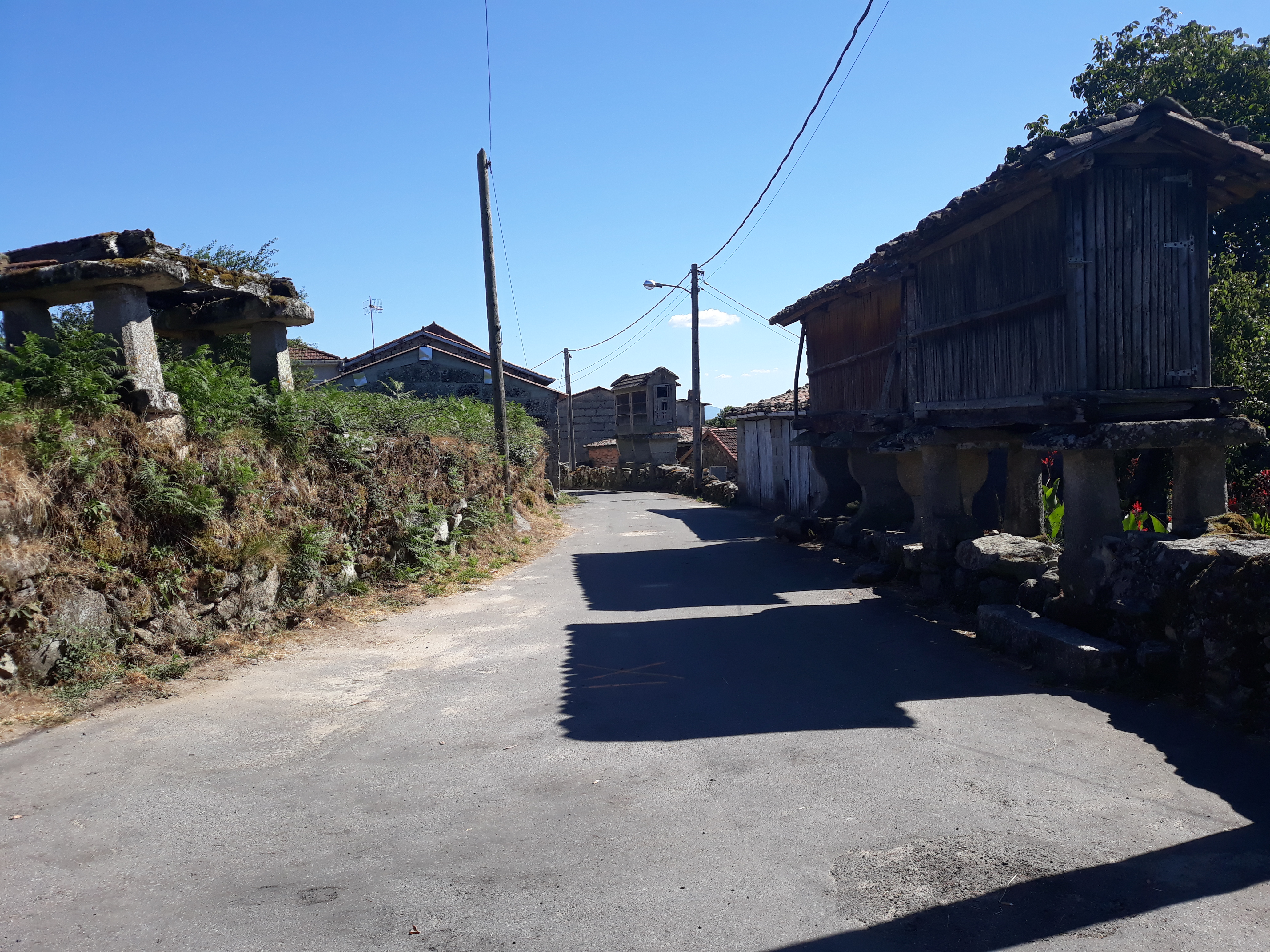 The hamlet of Cima de Vila, Xunqueira de Ambía, Ourense province, Galicia, Spain.